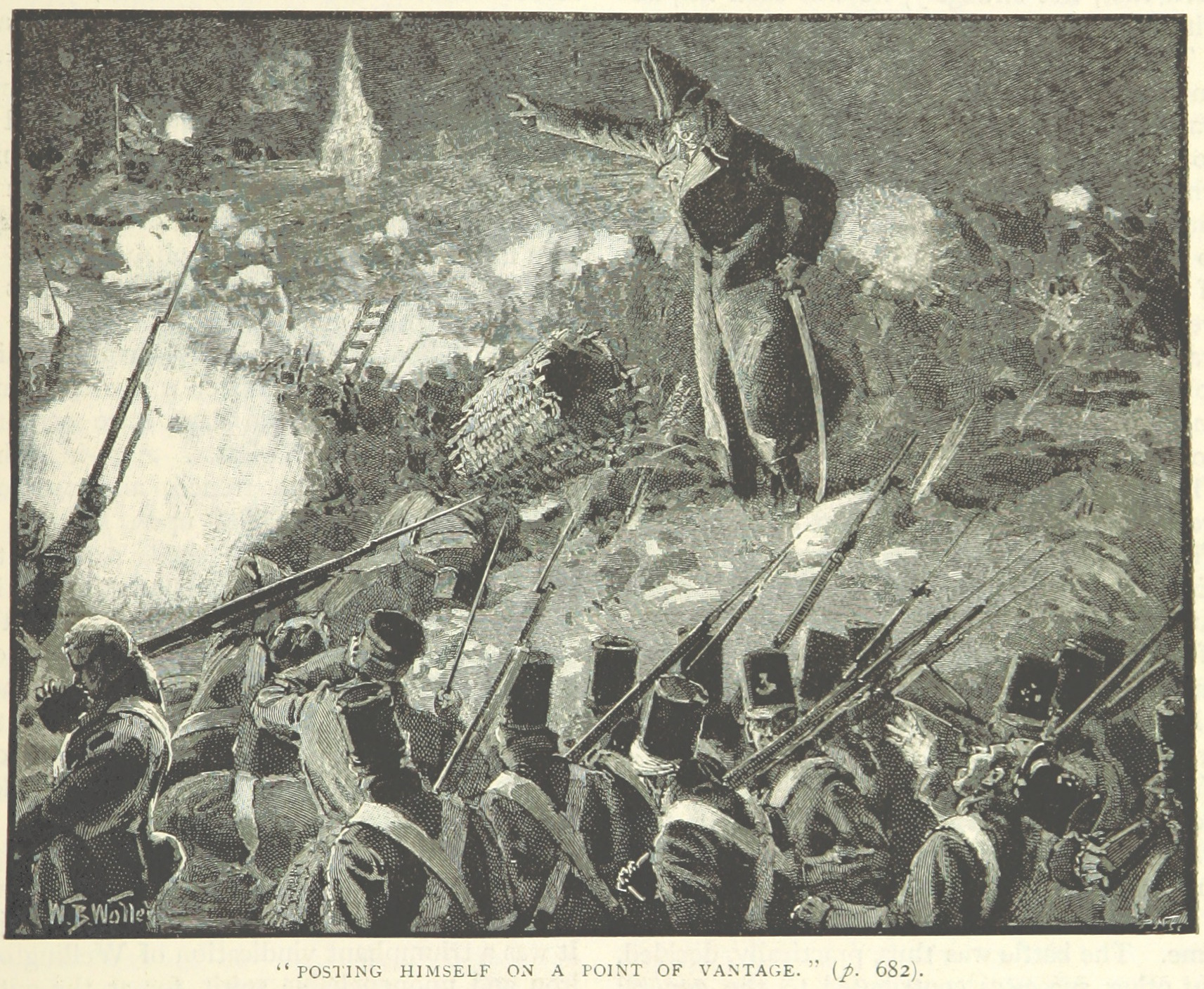 Robert Craufurd at the Siege of Ciudad Rodrigo, where he was fatally wounded.